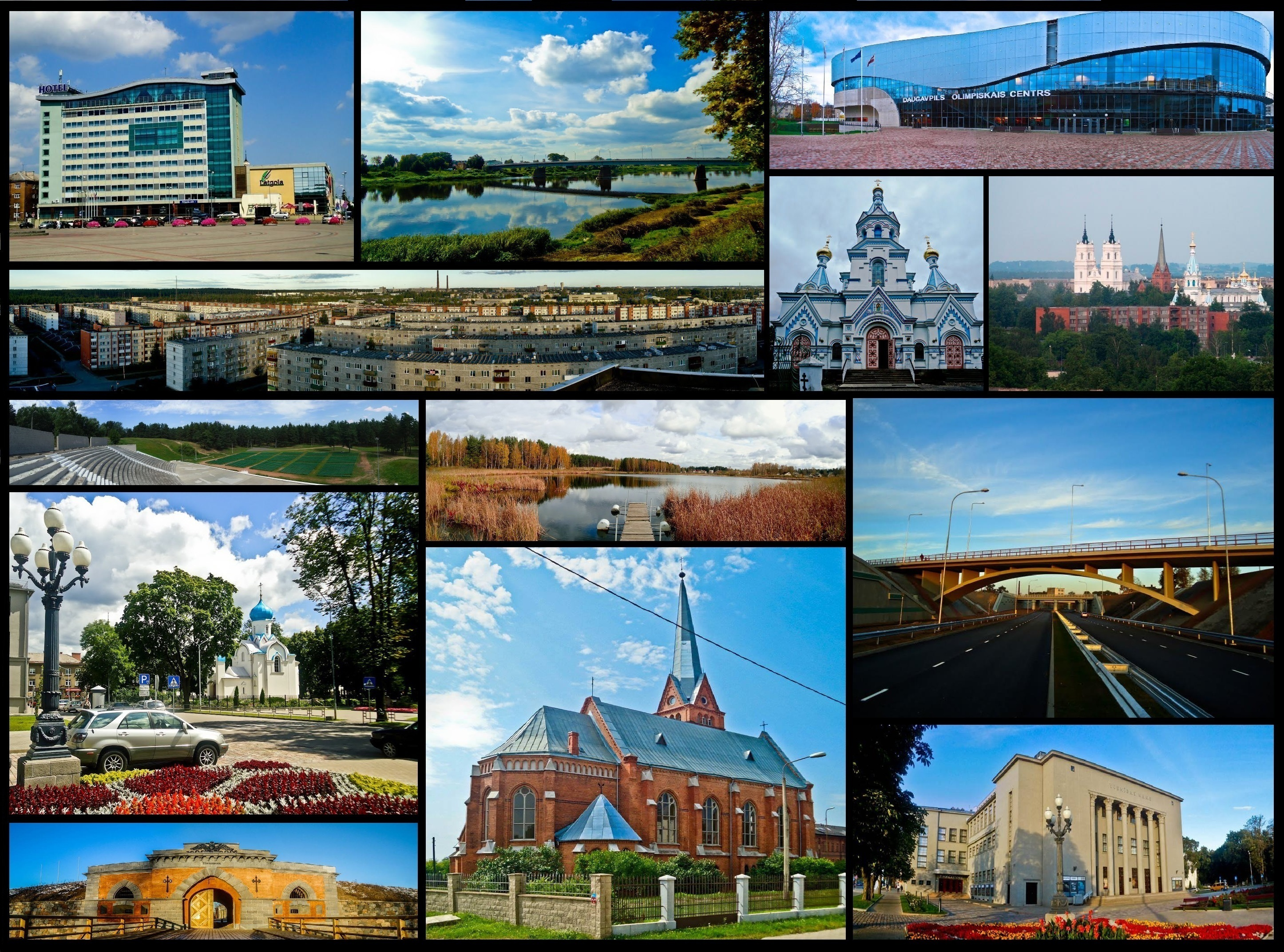 Daugavpils from different parts of city